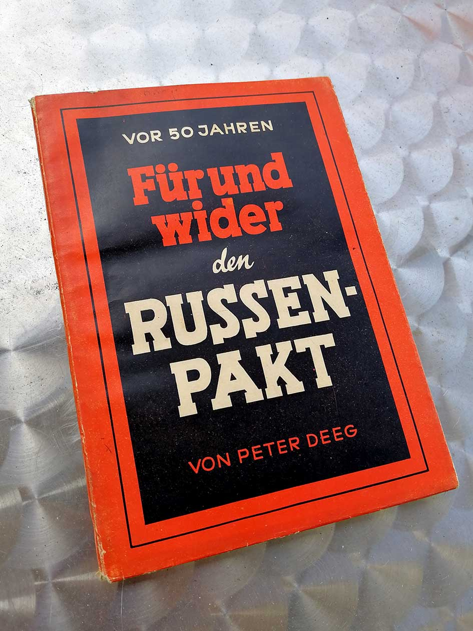 Title of the book "50 years ago. Pro and Contra against the Russian pact" (Nuremberg 1940) by Peter Deeg